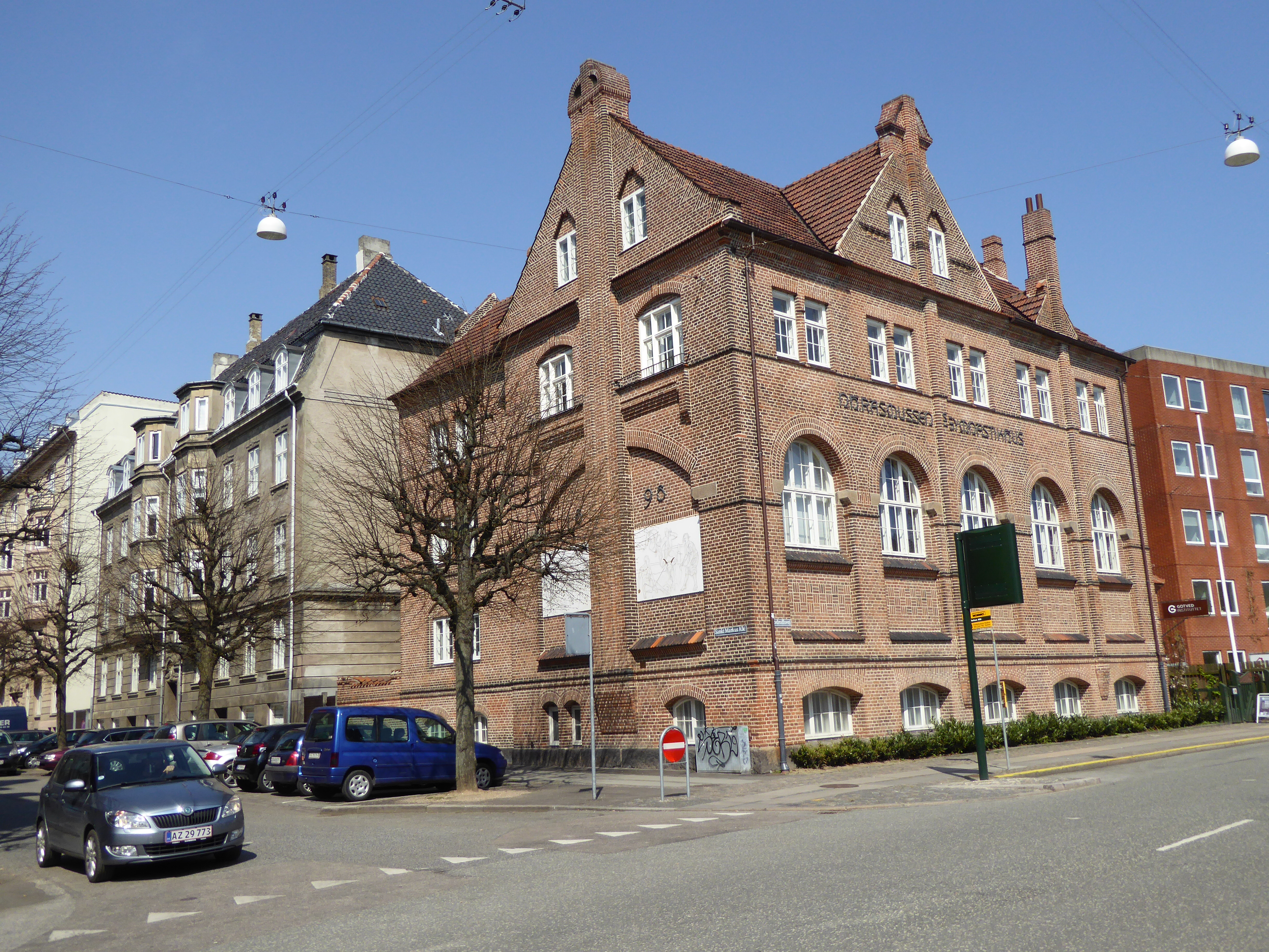 Gymnastikhuset (Gotvedinstituttet) in Frederiksberg, Copenhagen, Denmark